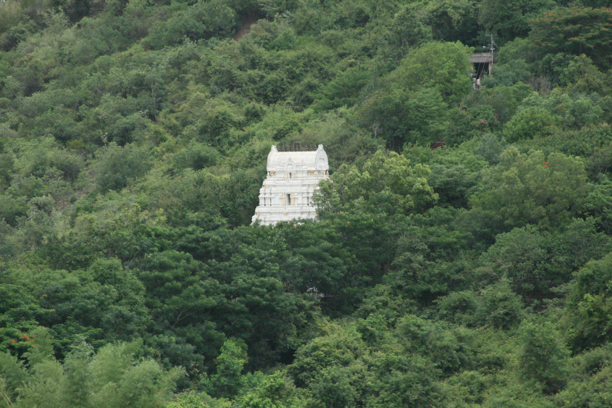 Mokallamitta Gopuram view among trees at Tirumala Hills